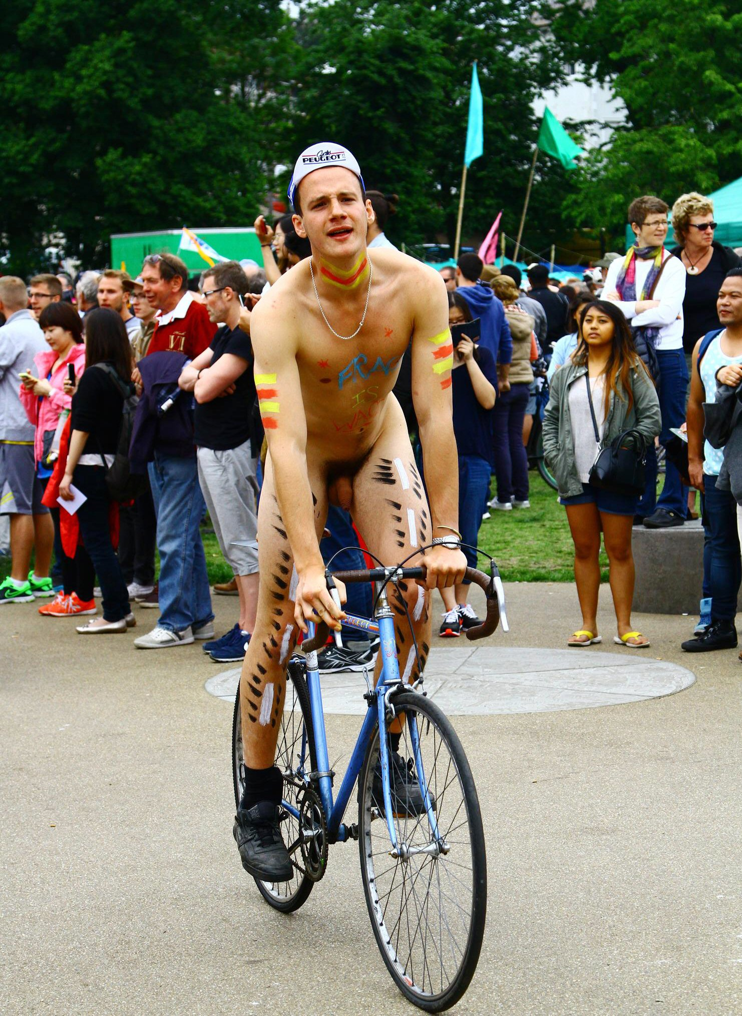 World Naked Bike Ride 2015, Brighton